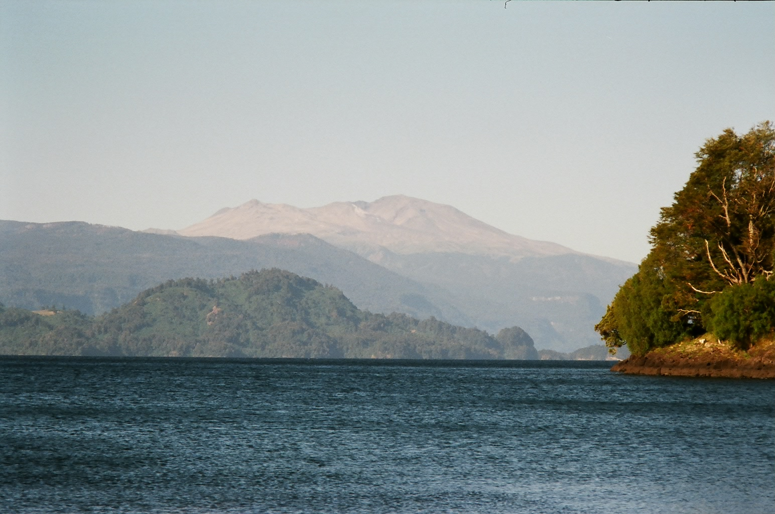 Chilean Puyehue Lake and Volcano seen from the main East-West road (road 215), 8 km east of Entre Lagos township. Isla Fresia, the lake's main island, is partly visible below the volcano.